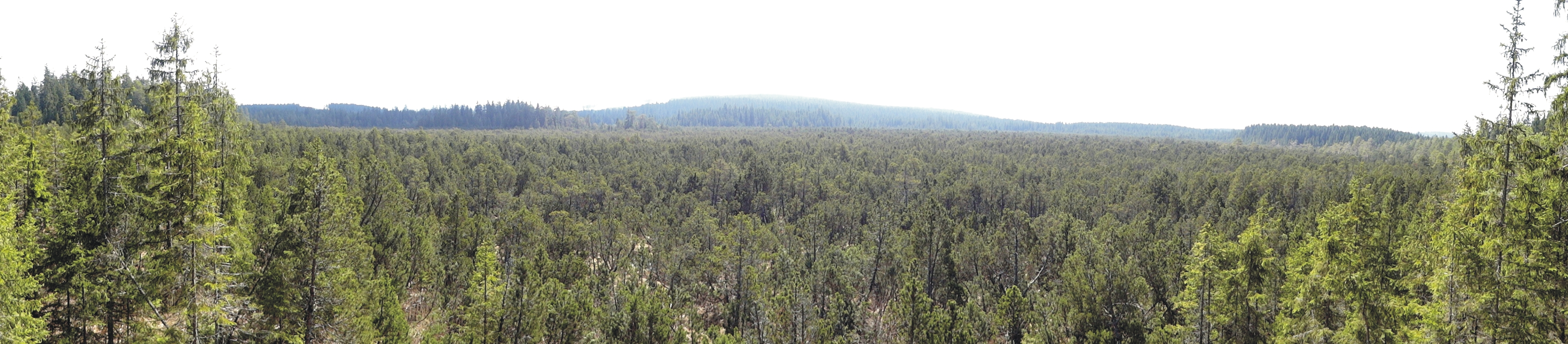 Nature reserve »Karlstifter Moore«, raised bog »Große Heide«, direction of sight: South. This media shows the nature reserve in Lower Austria with the ID 33.